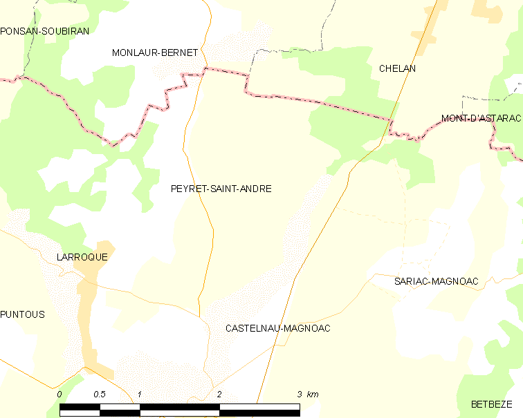 Map of French municipality